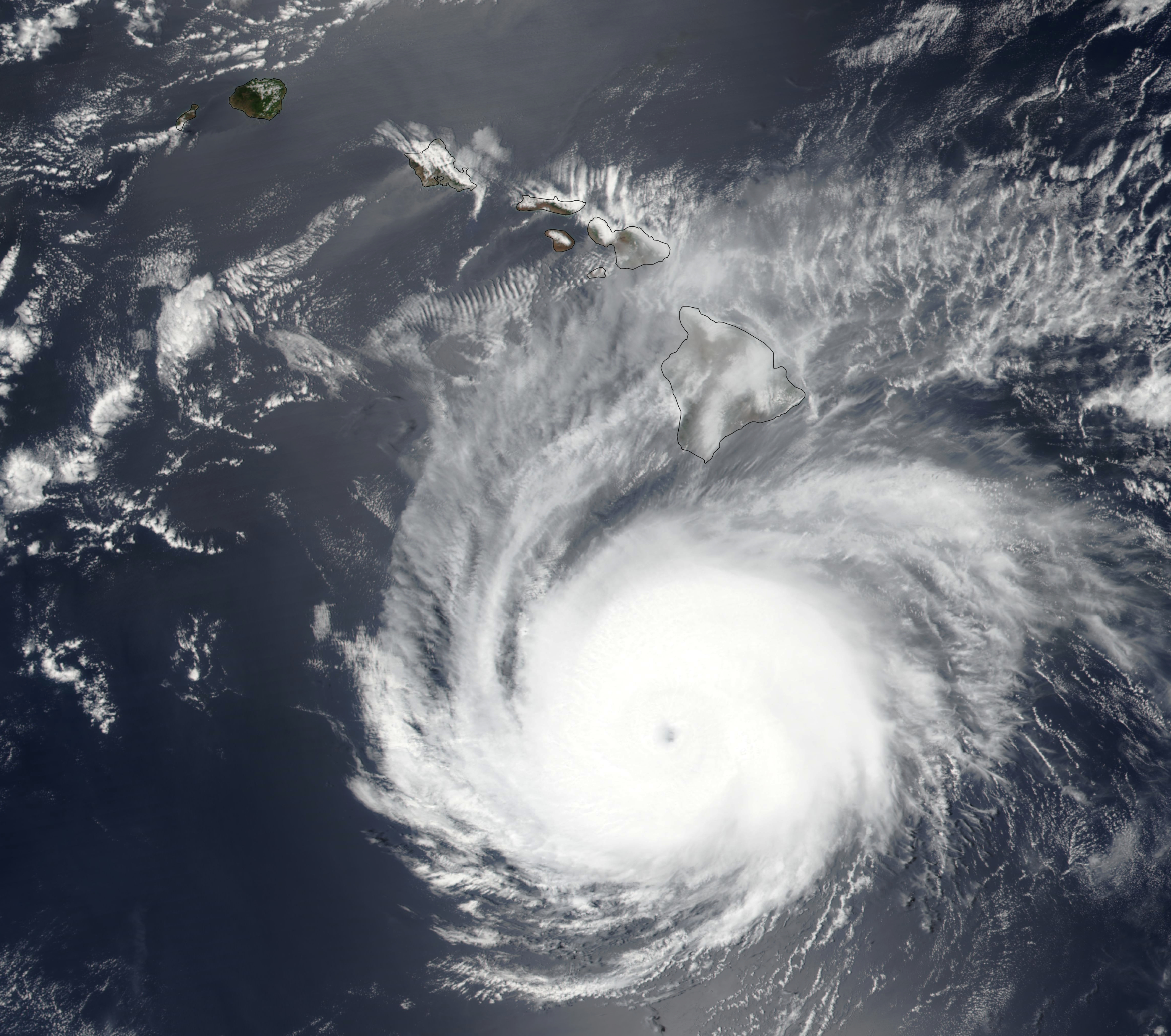 Hurricane Hector making its closest approach to Hawaii on the afternoon of August 8, 2018. Passing south of the Big Island, the hurricane was estimated to have been a low-end Category 3 hurricane with winds of 100 kt.